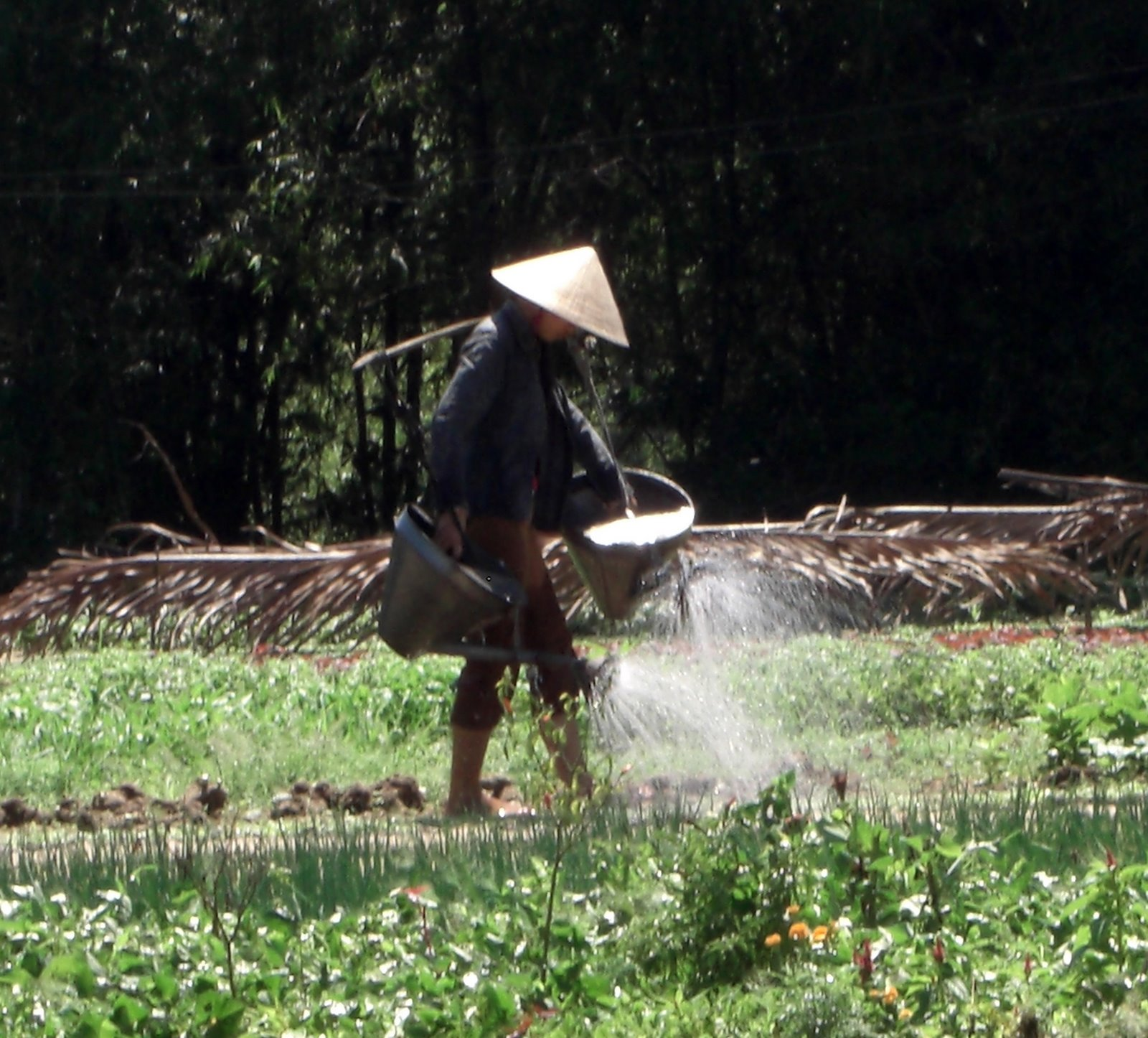 Pouring water in the fields